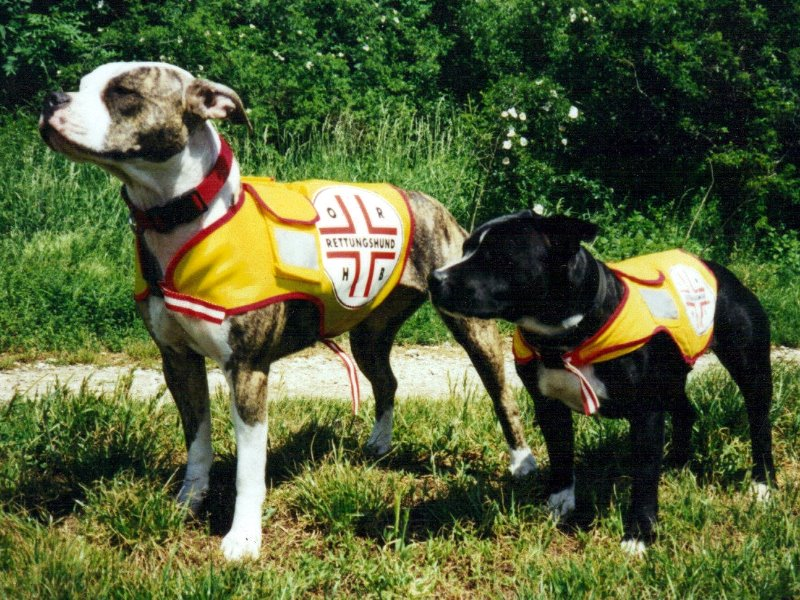 American Pit Bull Terrier and Staffordshire Bull Terrier as Austrian search and rescue dogs